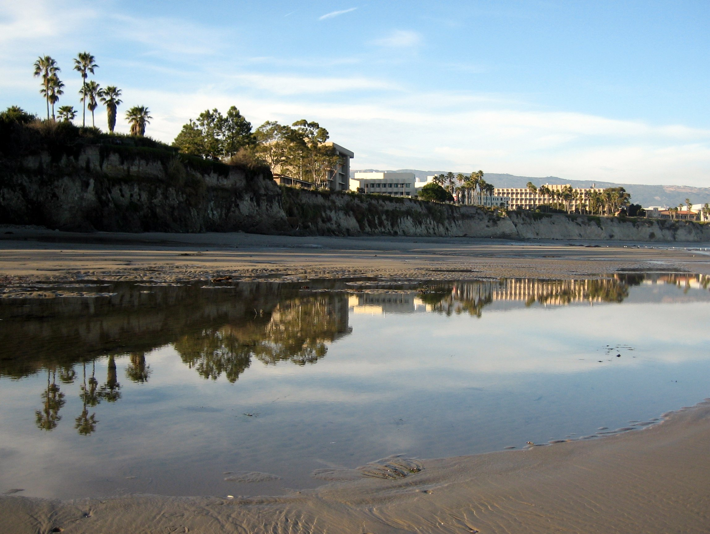 I took this picture of UCSB from the beach on en:30 January en:2006. This picture has a Flickr page [1]